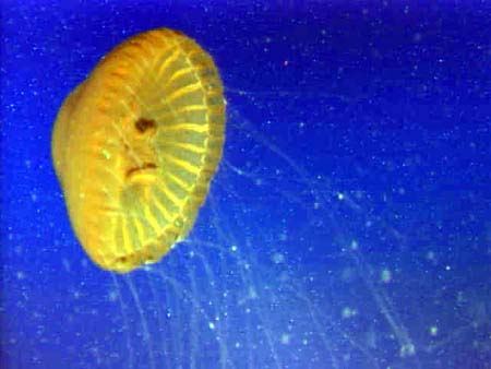 As we journeyed between sonar targets on ROPOS dive R597 (its second dive of the expedition), a brilliant red jellyfish (Poralia) drifted by with long tentacles undulating.